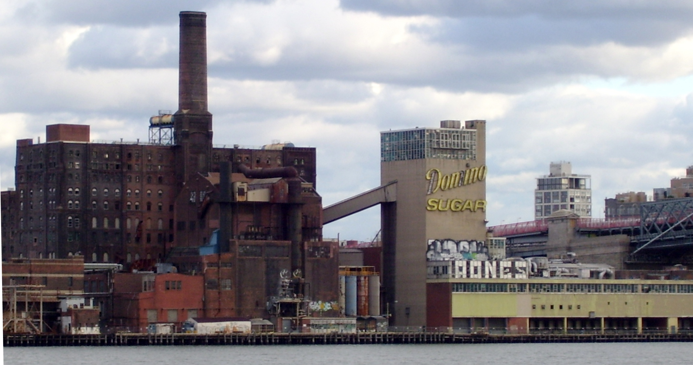 The derelict Domino Sugar refinery in Williamsburg, Brooklyn, New York City. The original refinery was built in 1856, and by 1870 it processed more than half of the sugar used in the United States. A fire in 1882 caused the plant to be completely rebuilt in brick and stone, and those buildings remain, albeit with alterations made over the years. The refinery stopped operating in 2004, and three of the buidings were given landmark status by the Landmarks Preservation Commission in 2007. (source: Save Industrial Brooklyn) In 2010, a developer's plan to convert the site to residential use has received support in the New York City Council. (source: NY Times)